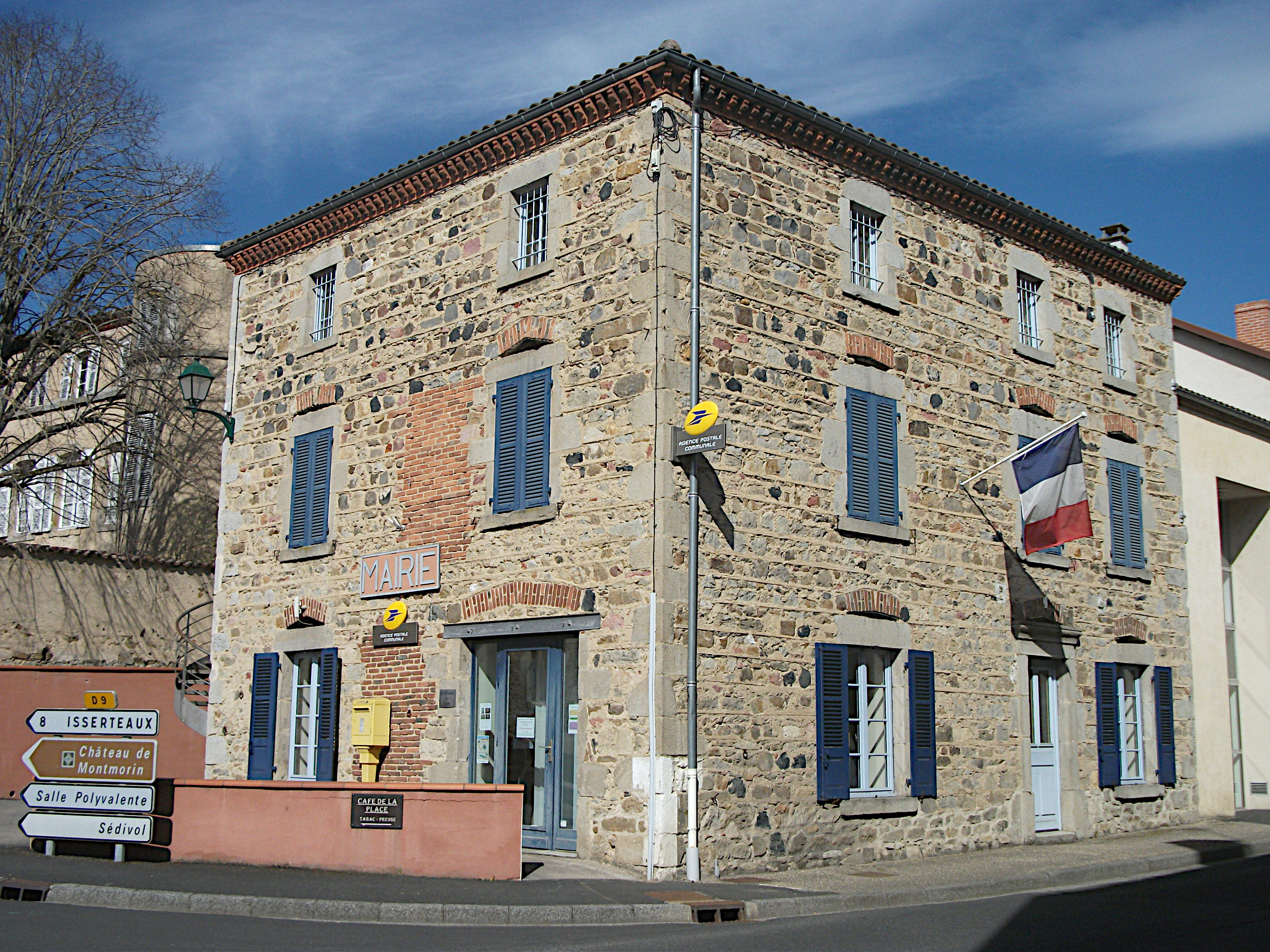 Town hall and post office of Sugères, Puy-de-Dôme, Auvergne-Rhône-Alpes, France. [17993]